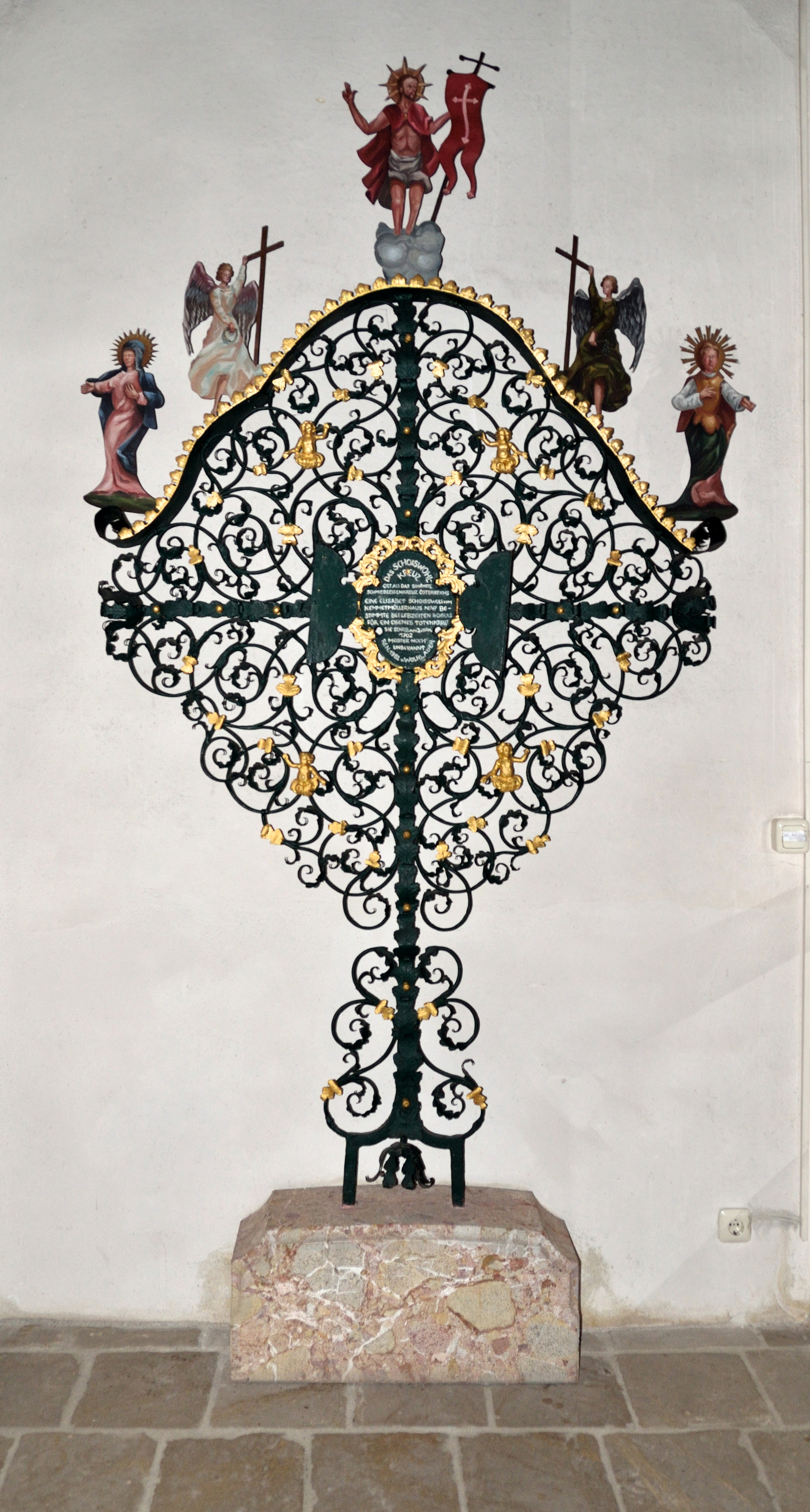 The wrought iron cross called Schoisswohlkreuz in the parish church of St. Jacob in Windischgarsten, Upper Austria.